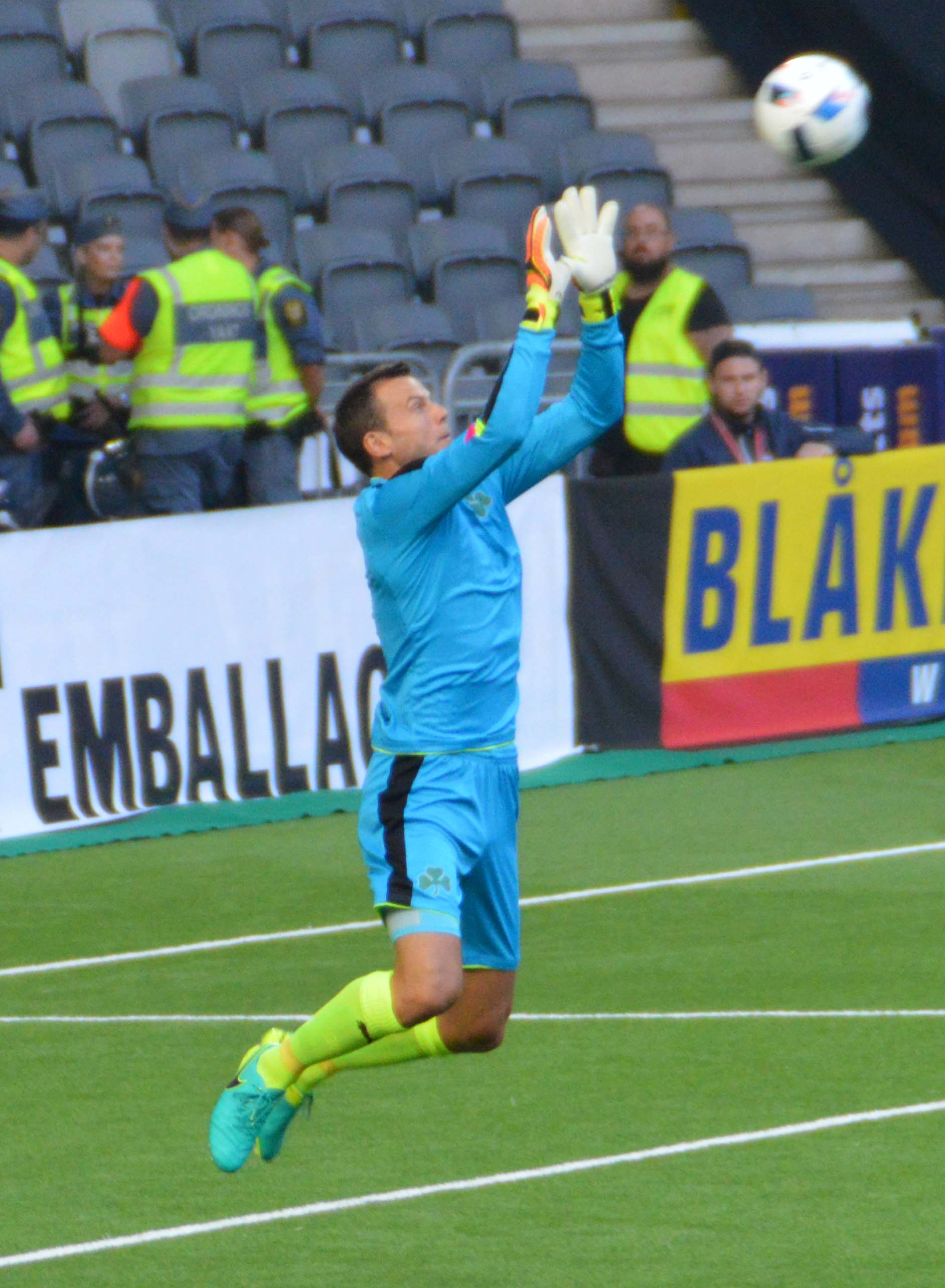 Goalkeeper Luke Steele saves a ball against AIK in a Europa League Qualifier away to AIK at Tele2 Arena. 2016-08-04